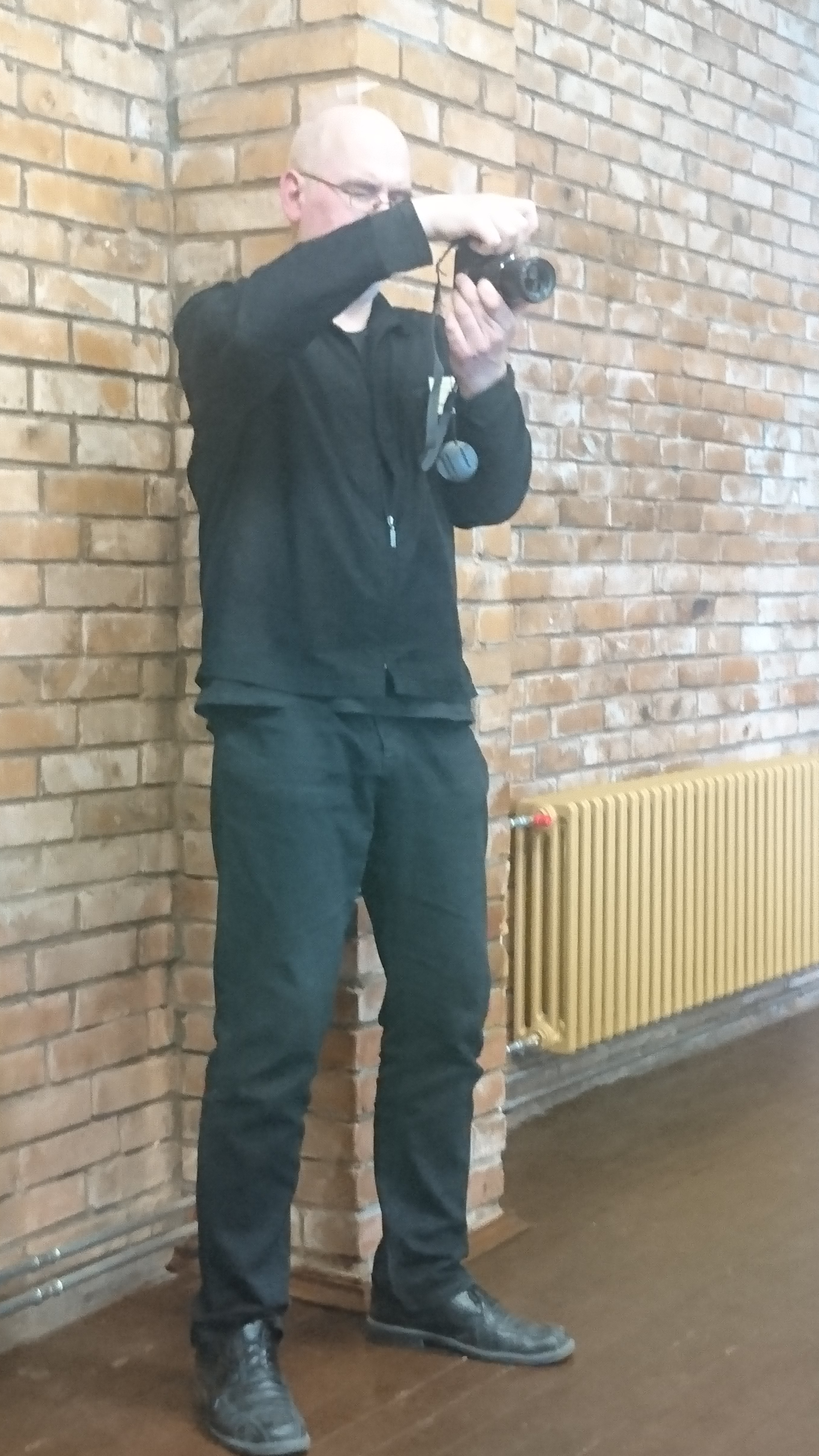 Estonian philosopher and translator Eduard Parhomenko on a philosophy conference in Estonia, Kääriku, May 12, 2017.